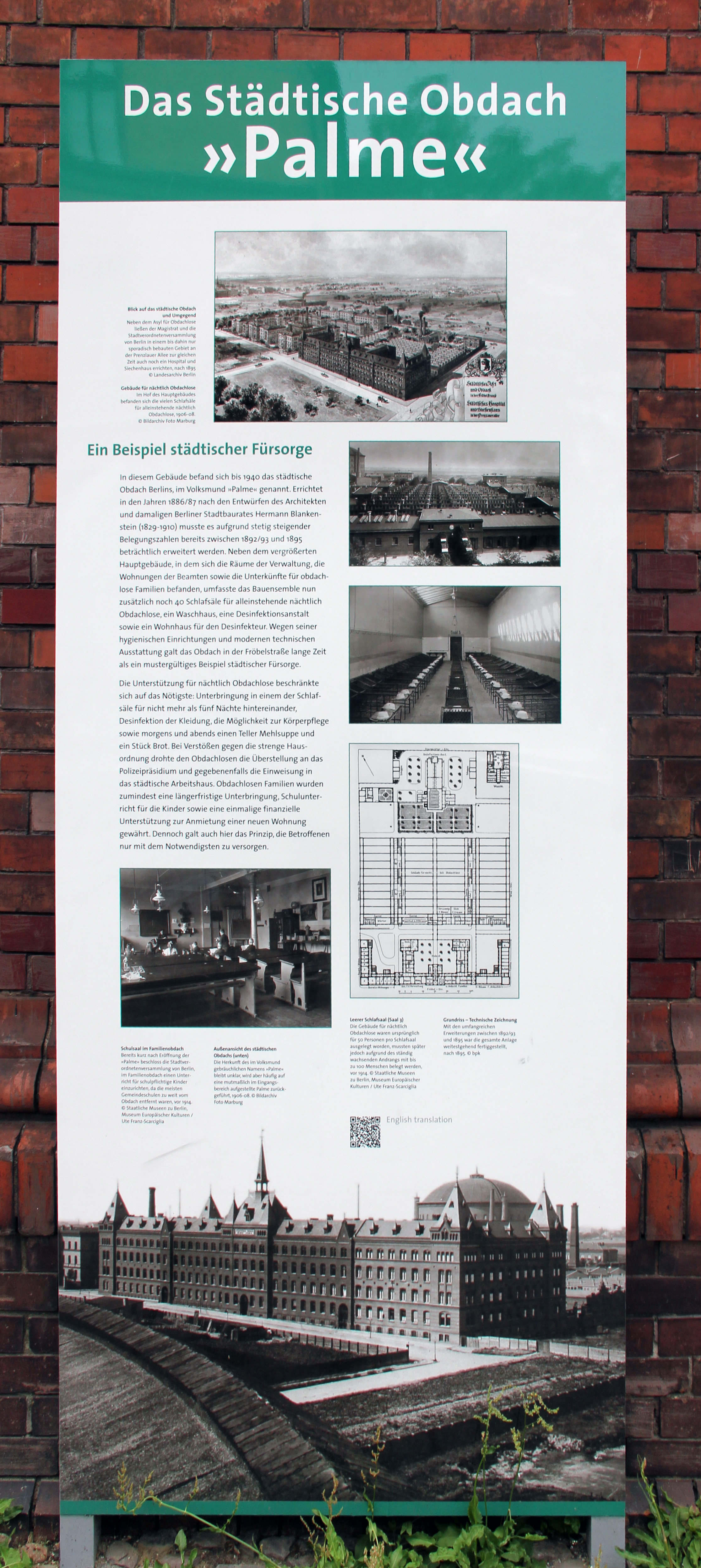 Memorial plaque, Das städtische Obdach Palme, Fröbelstraße 15, Berlin-Prenzlauer Berg, Deutschland